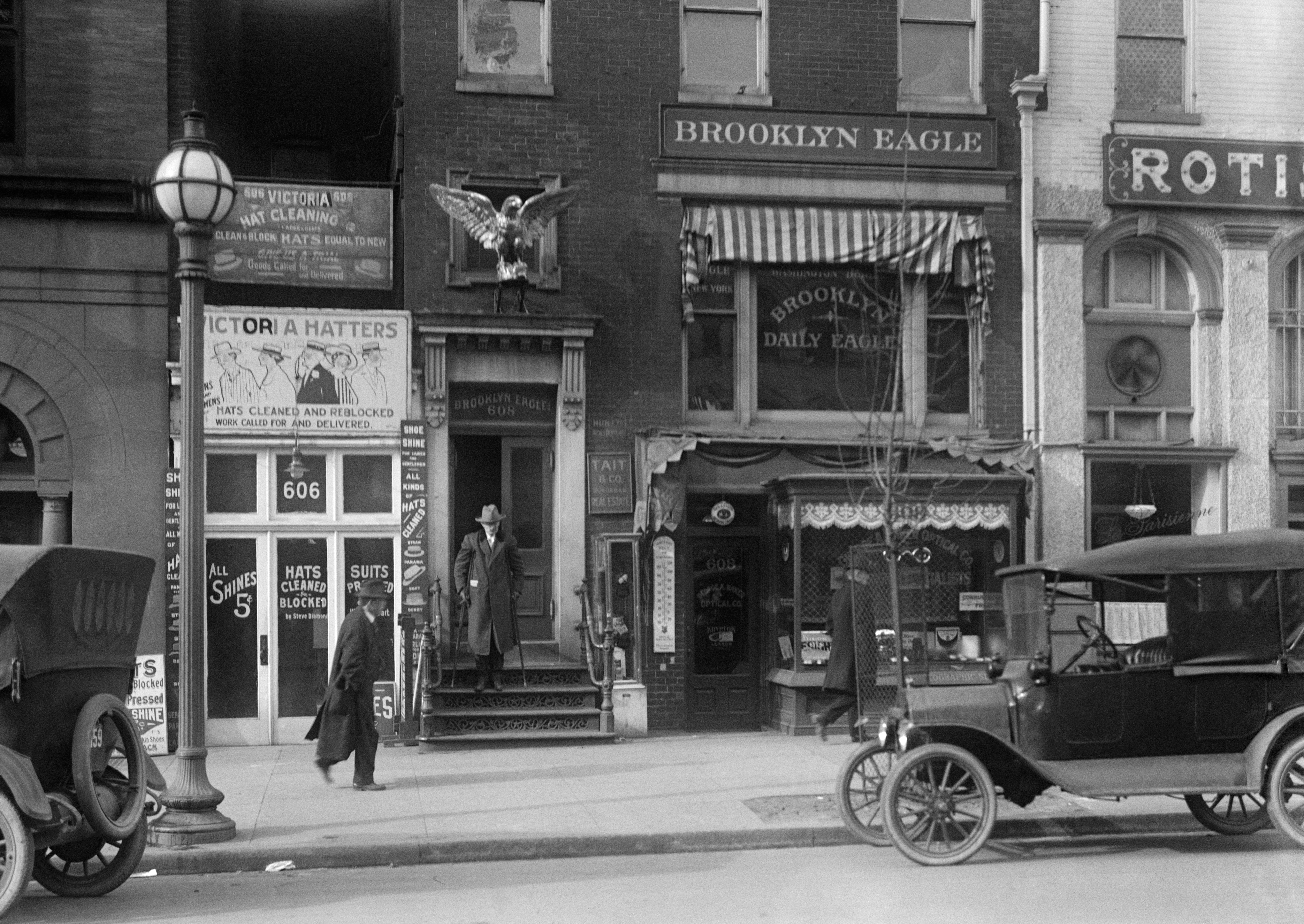 The Brooklyn Eagle's Washington bureau office, street view of building facade